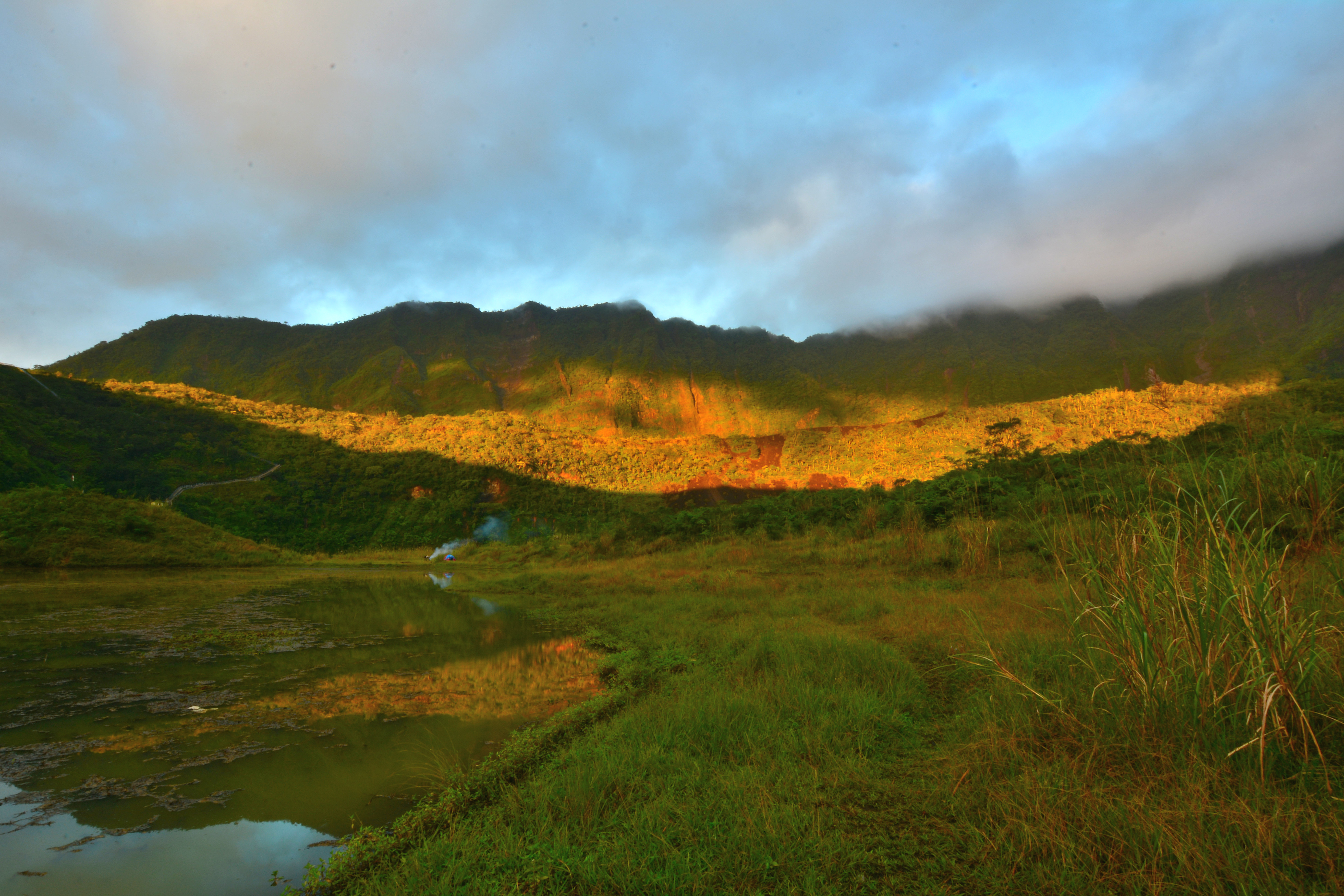 The sun shines through some part of Galunggung mountain in the early morning